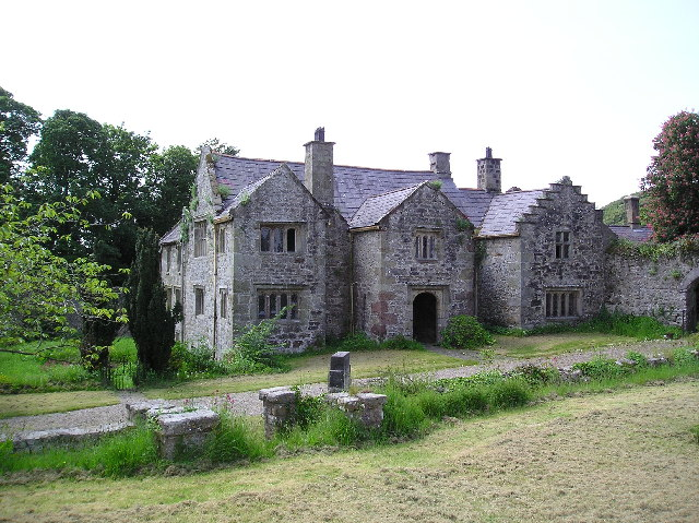 Y Faenol Old Hall. Derelict for many years (having been superseded by a grander house nearby), Faenol Old Hall is now a centre for training in conservation crafts and building skills